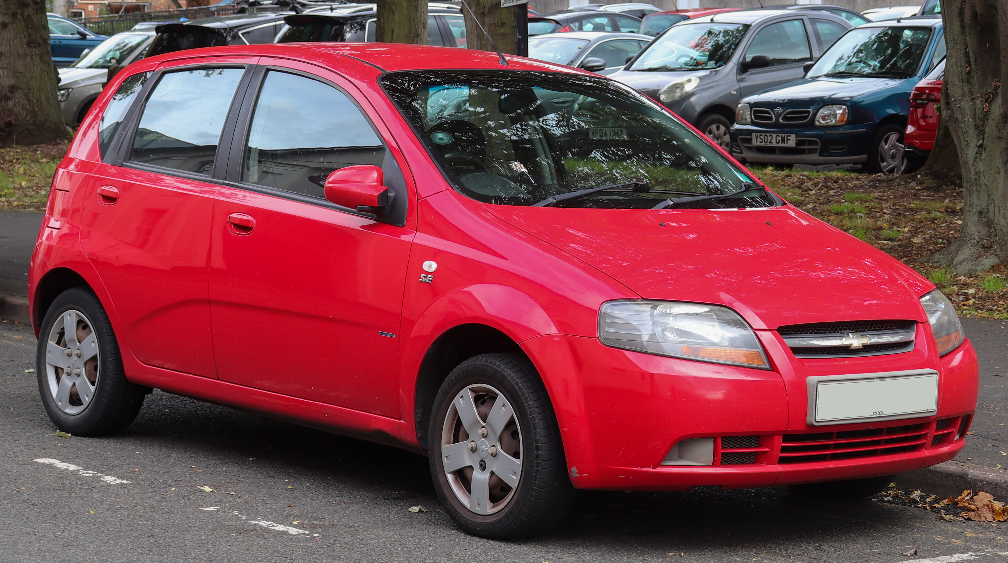 2007 Chevrolet Kalos SE 1.2 Front Taken in Leamington Spa